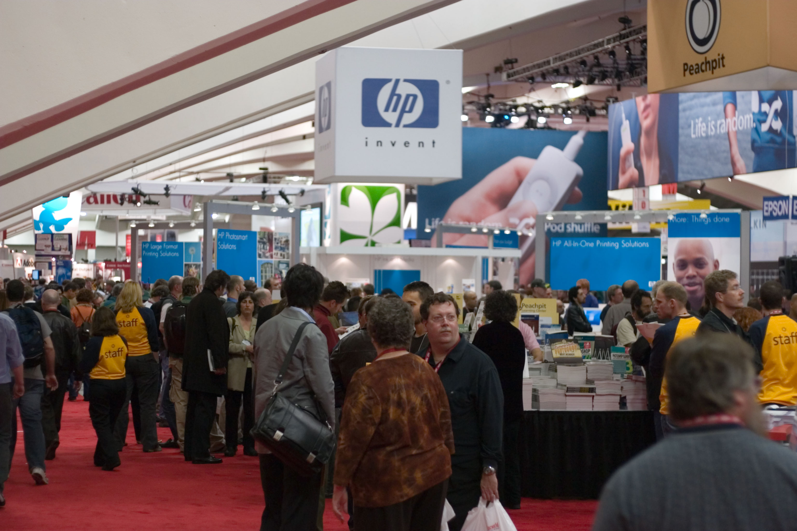 From Macworld Conference & Expo 2005 by Sean O'Flaherty aka Seano1